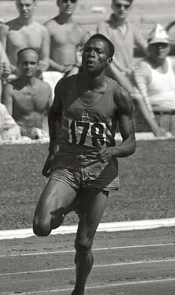 Bartonjo Rotich running 400 metres sprint as the third heat of the Olympic quarterfinals. Rome, 3 of September 1960.